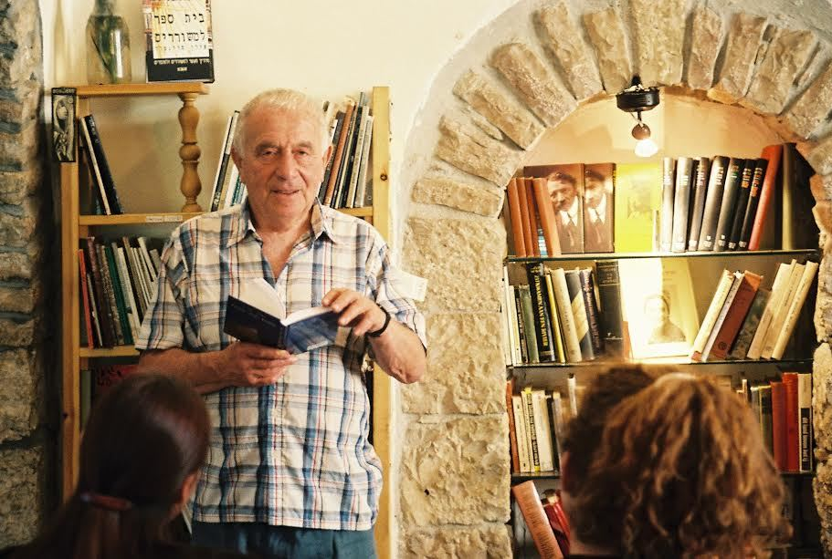 Jerusalem, Yo'el Moshe Salomon St 5, Tmol Shilshom cafe - Yehuda Amichai